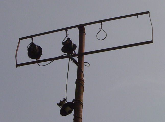 A training floodlight - the last remaining relic of Henfield Youth AFC.